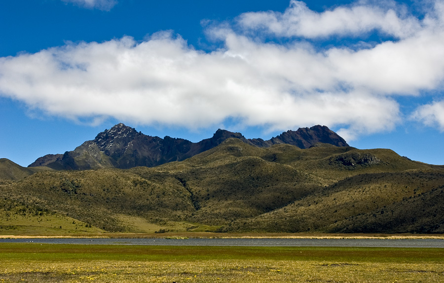 The Rumiñahui volcano seen from the Limpiopungo Lagoon. Cotopaxi National Park, Ecuador.